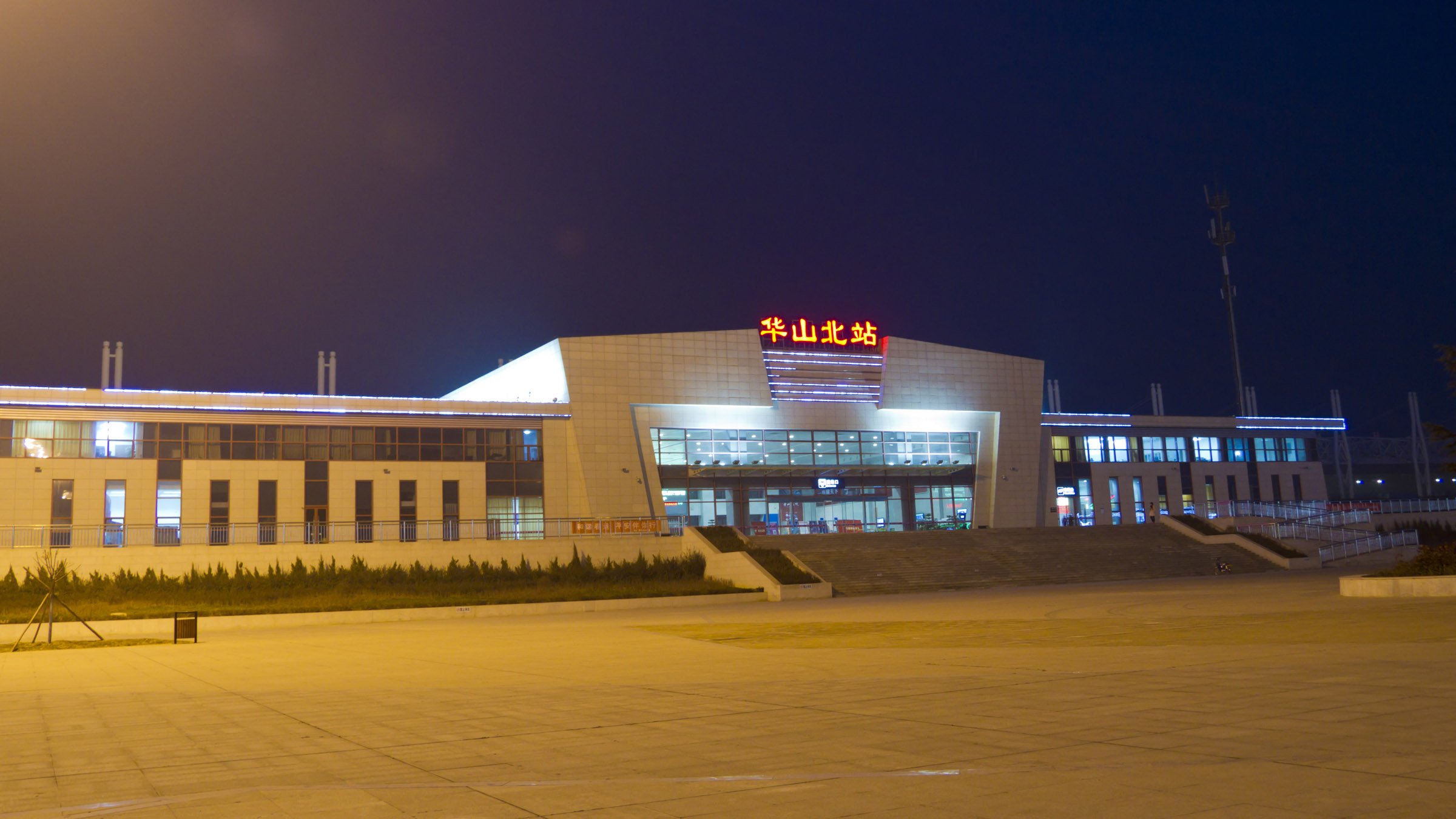 Huashan North Station